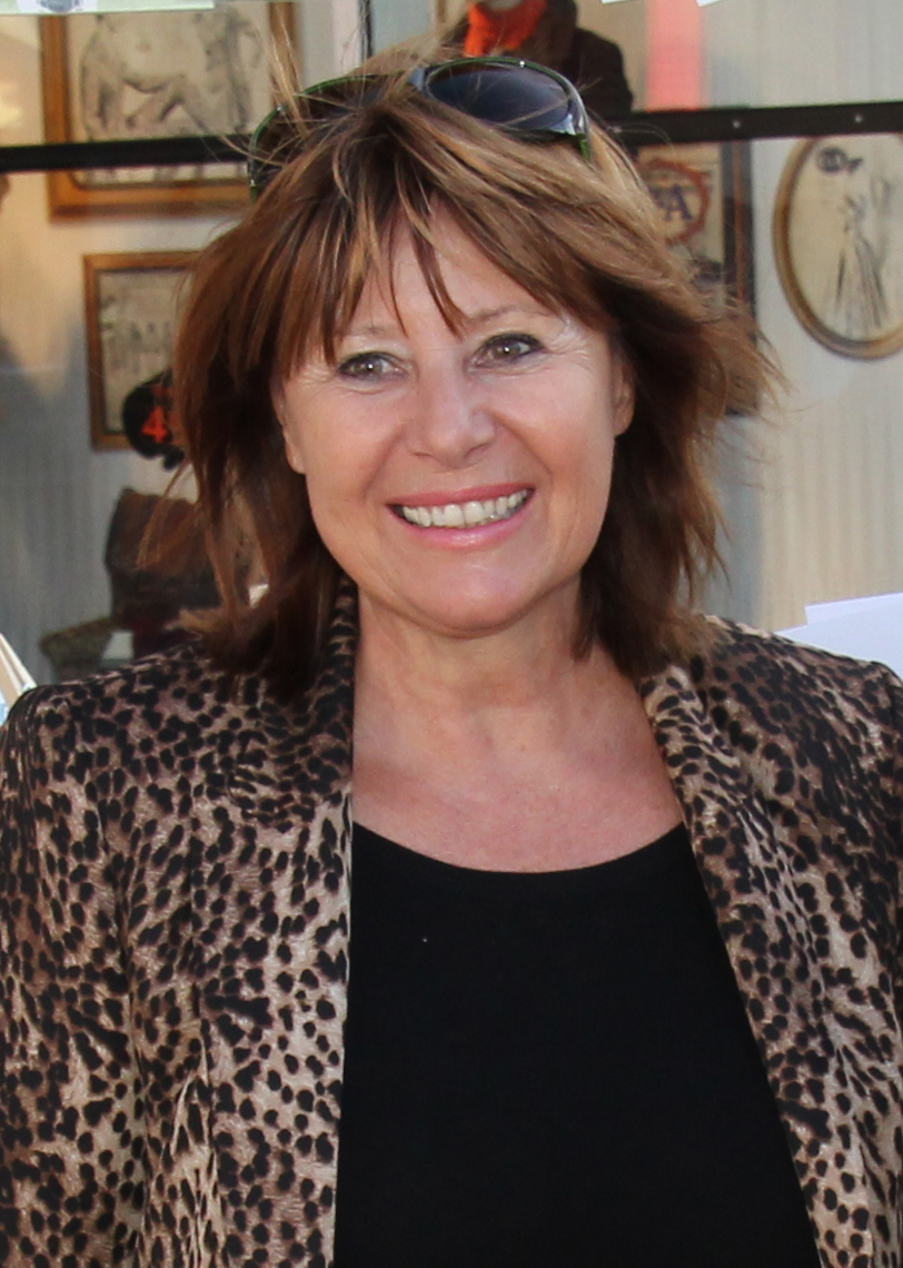 Lisa Jenewein